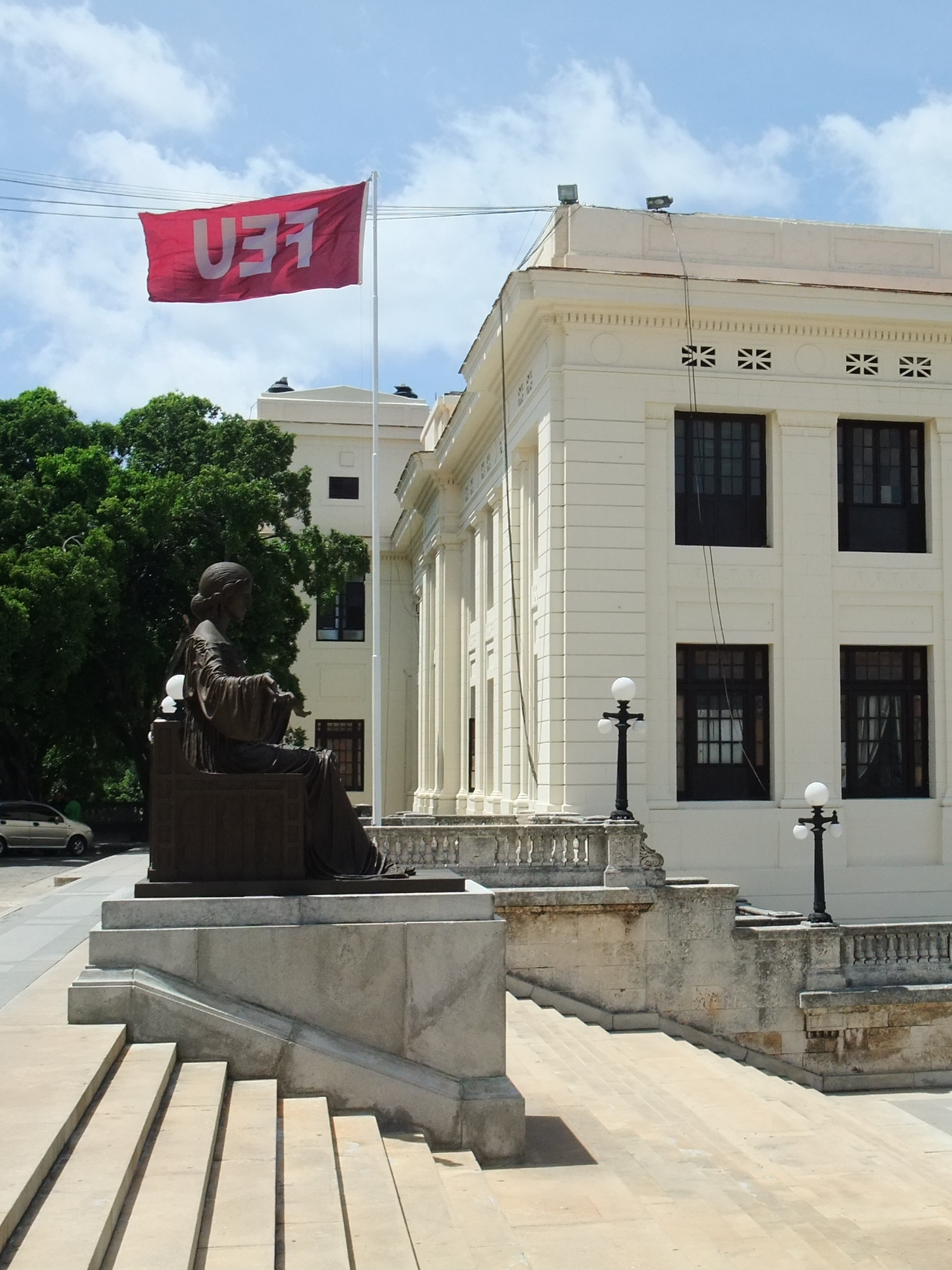 FEU flag flying over University of Havana campus